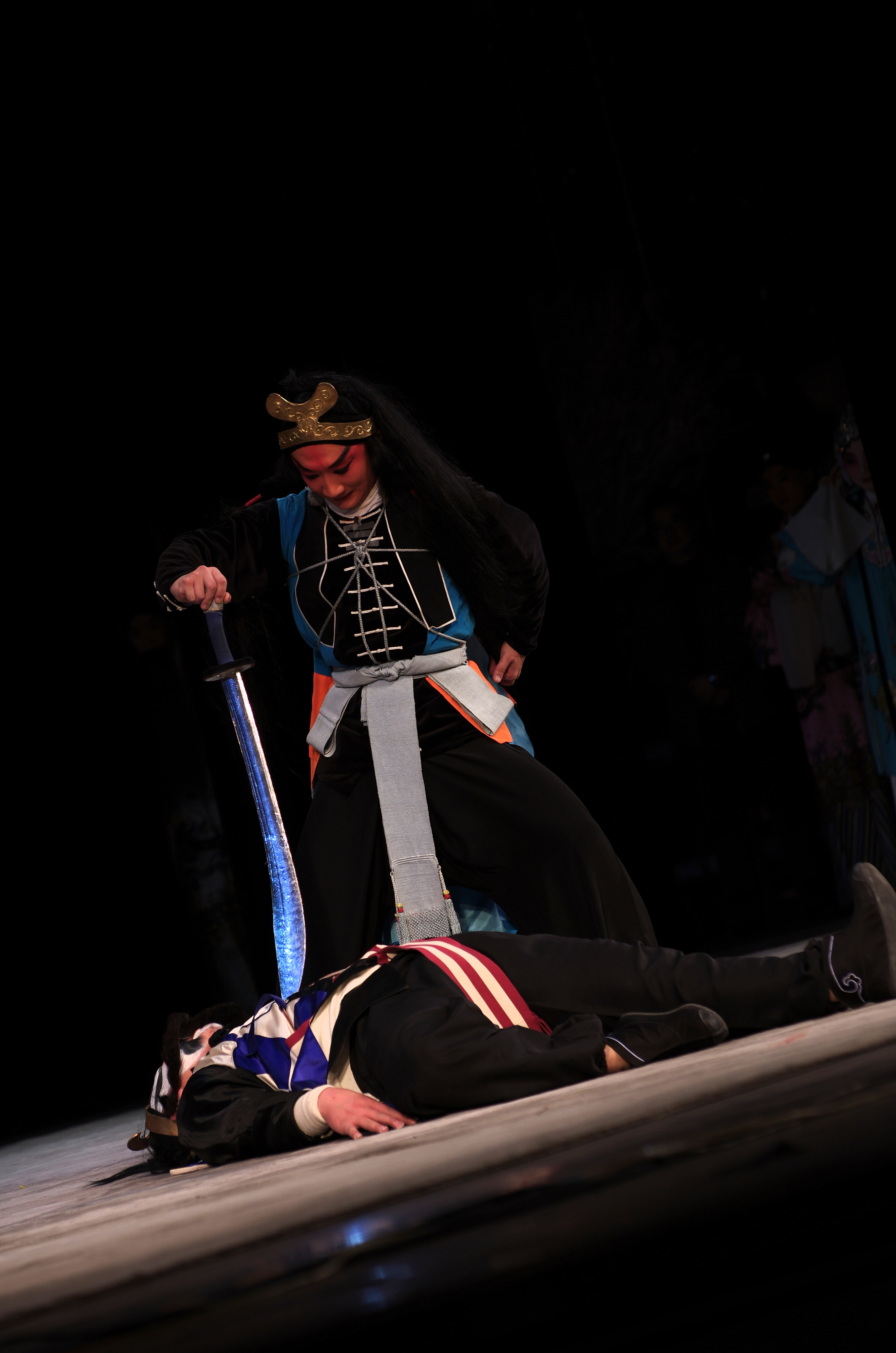 A Peking opera performance in Tianchan Theatre by Shanghai Jingju Theatre Company, starring Guo Shiming (郭士铭) as Wu Song.